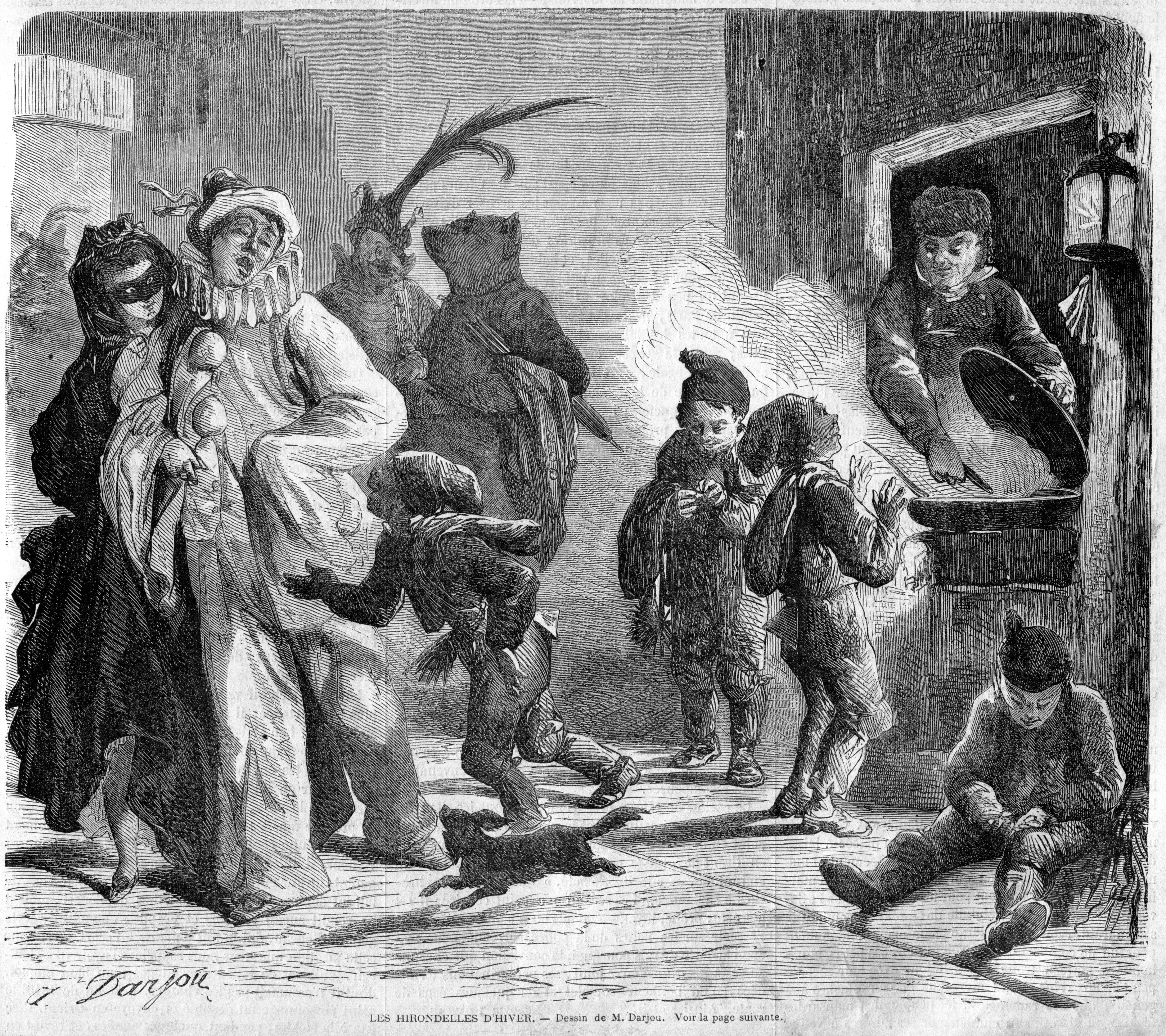 L'Illustration 1862 gravure Les hirondelles d'hiver